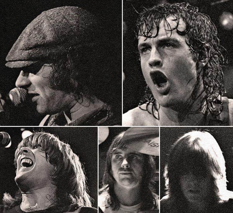 Top: Brian Johnson (L), Angus Young (R) Bottom: Cliff Williams (L), Phil Rudd (M), Malcolm Young (R)